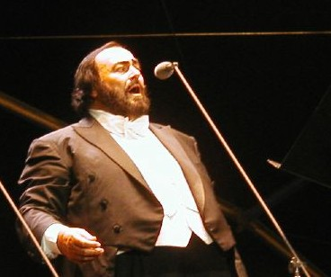 Luciano Pavarotti in Vélodrome Stadium, 15/06/02. Cropped version.